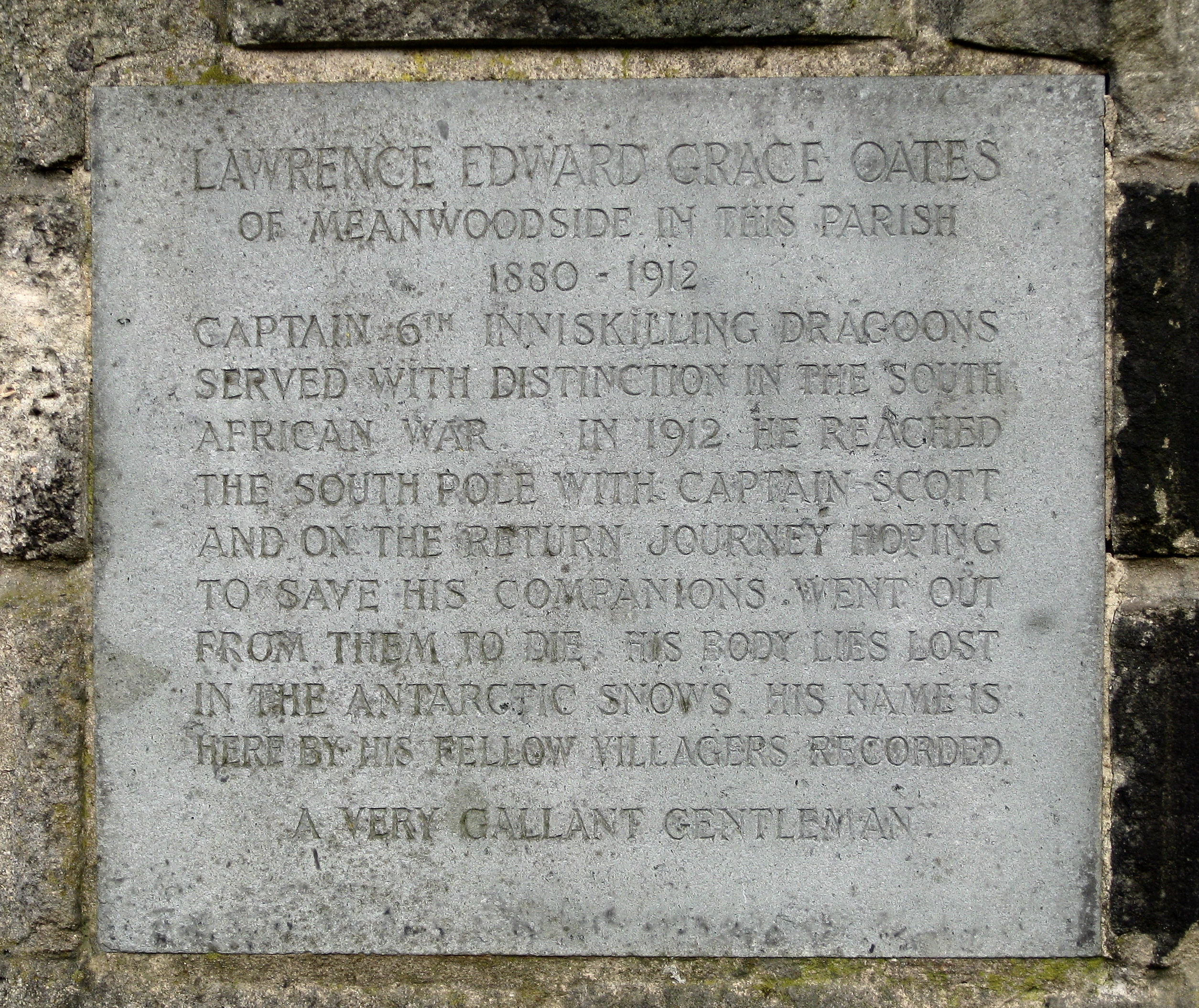 Memorial to Lawrence Oates. Memorial Drive, Leeds LS6.